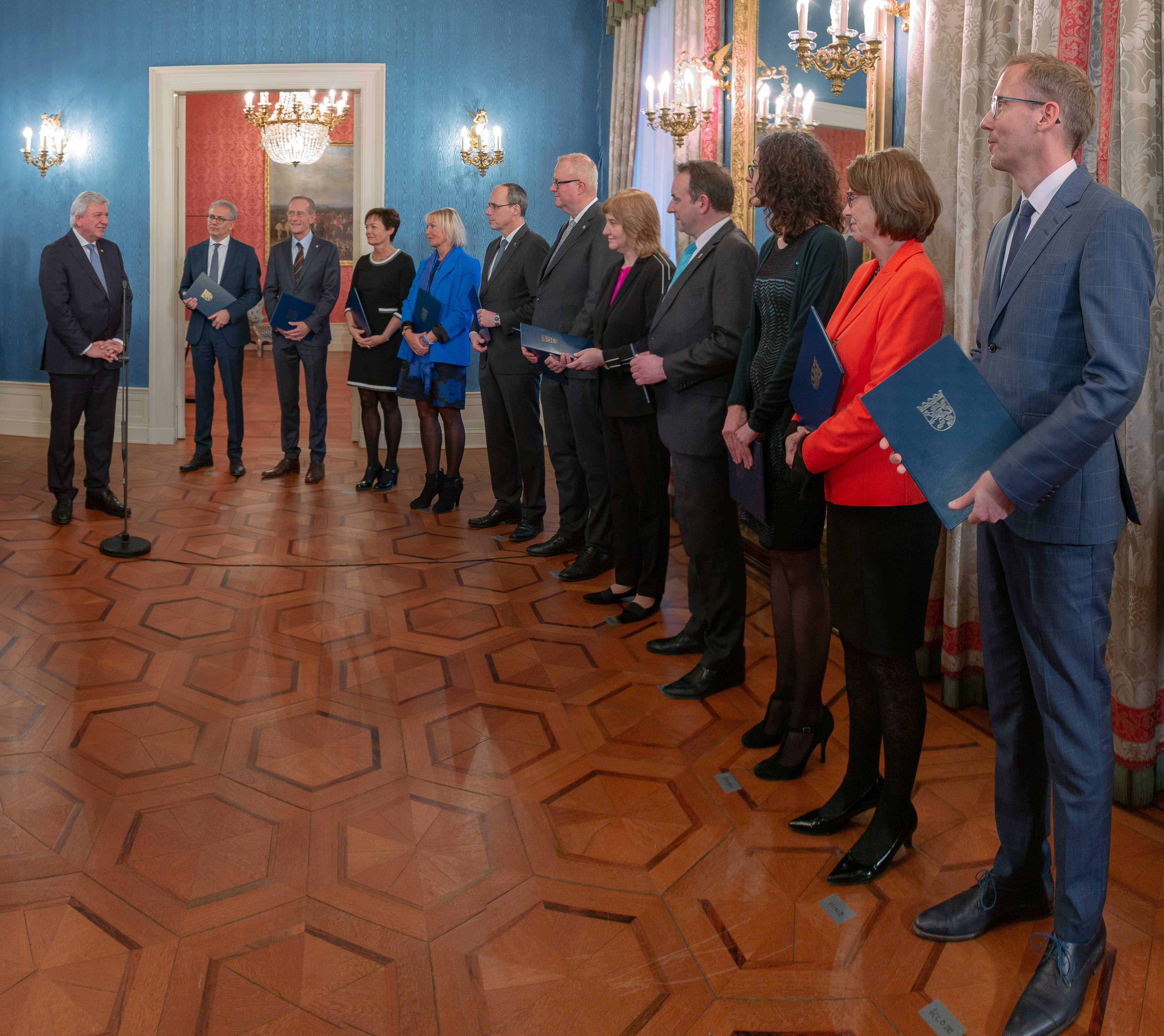 The cabinet Bouffier III at the Landtag of Hesse